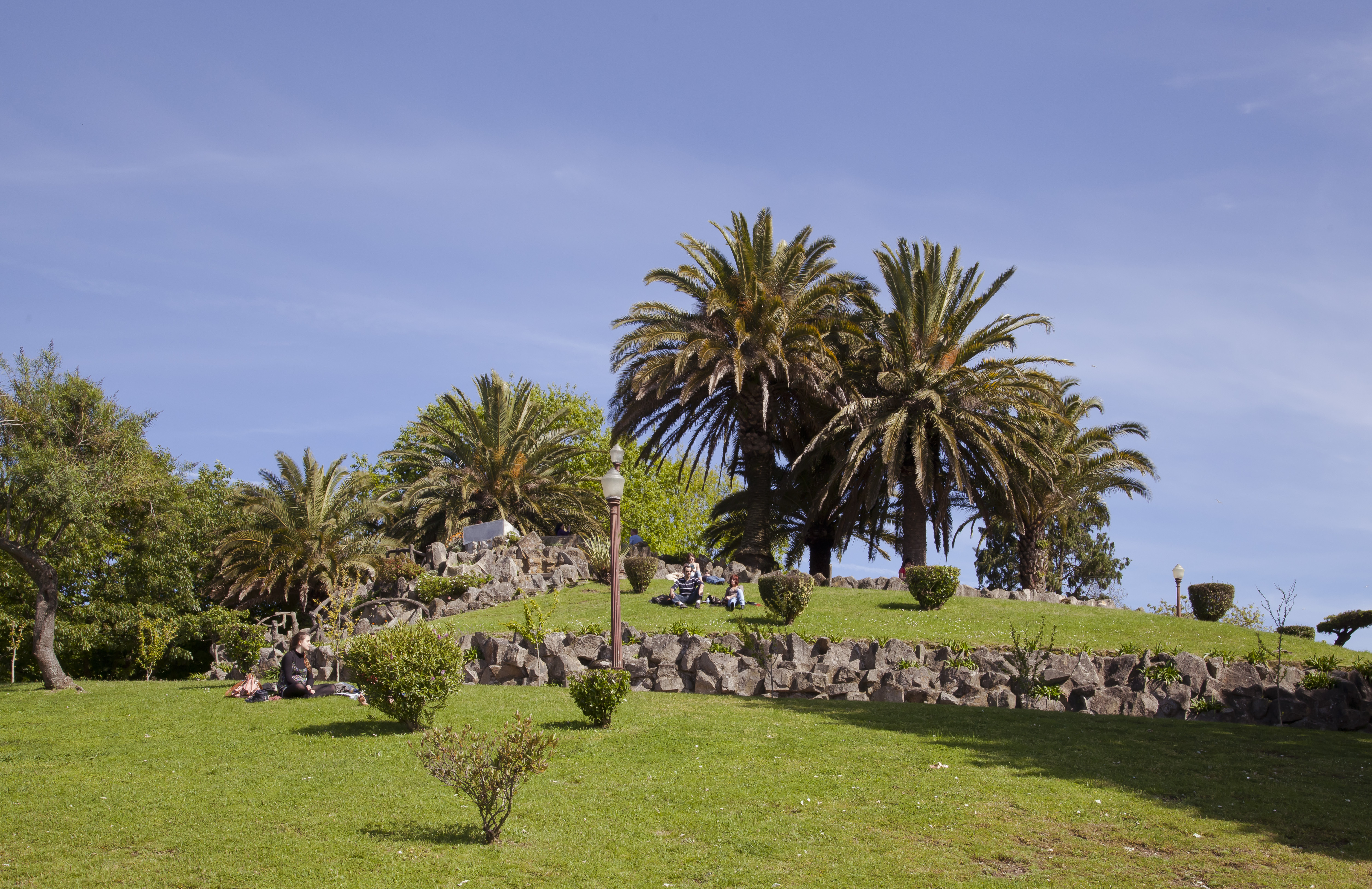 Jardim do Morro, Porto, Portugal